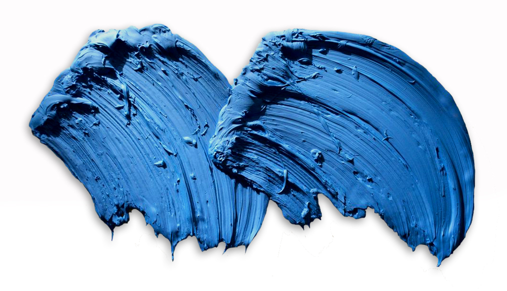 Date: 2014 Size: 47Hx92W inches Medium: Polymer and dispersed pigment on alumalite